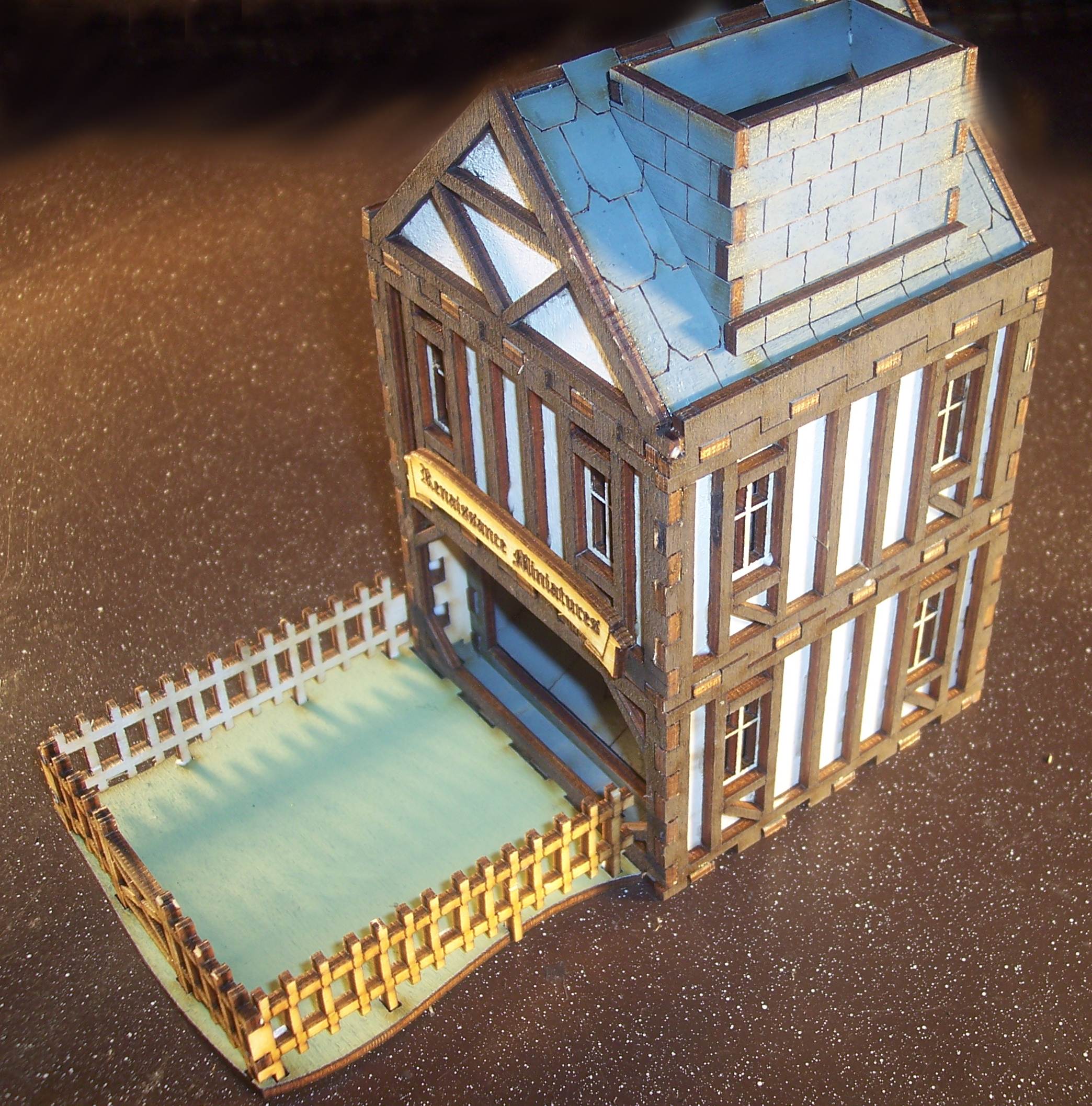 A dice tower, made to look like a medieval house in 28mm scale from Renaissance Miniatures.